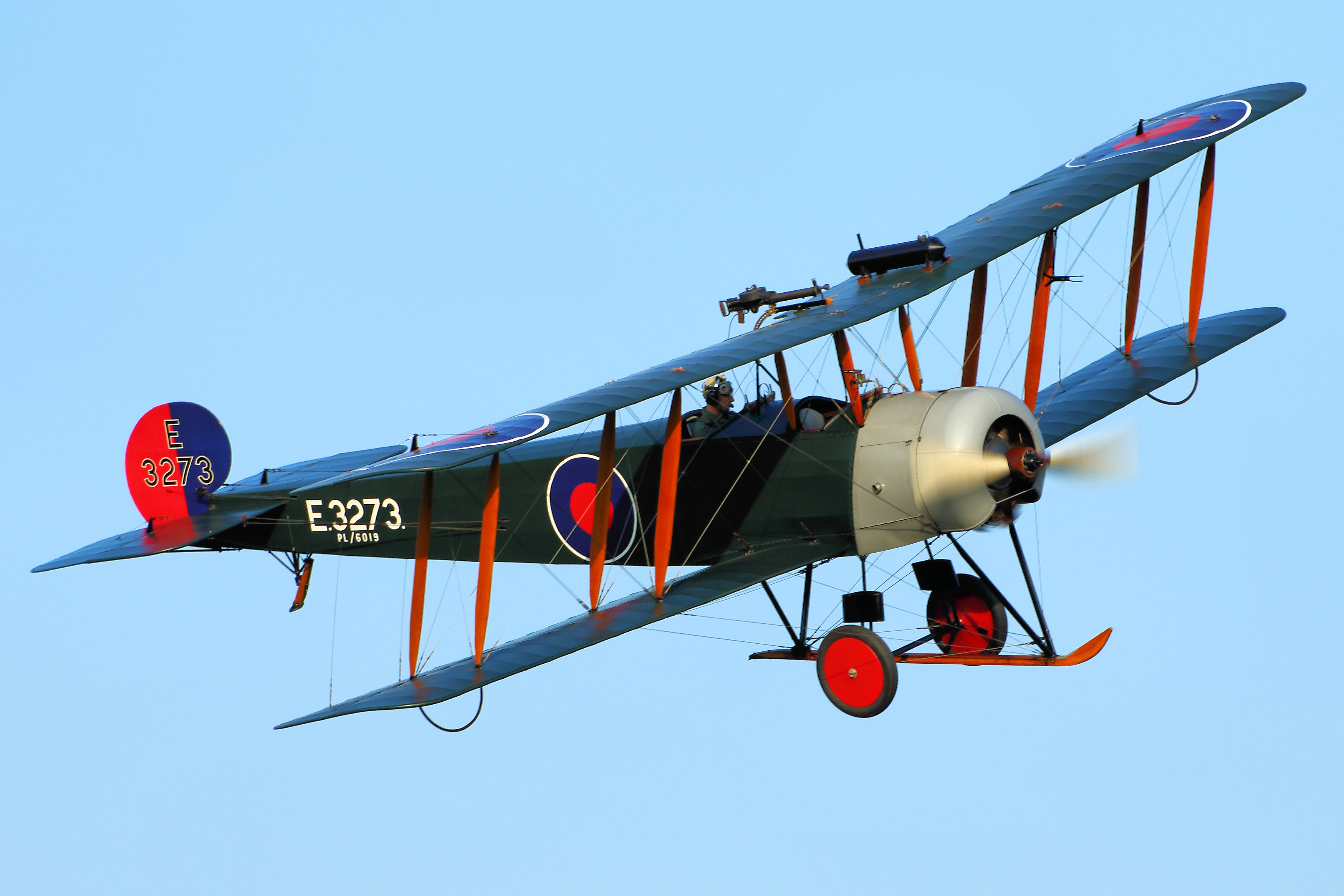 Avro 504K - Shuttleworth Uncovered 2015